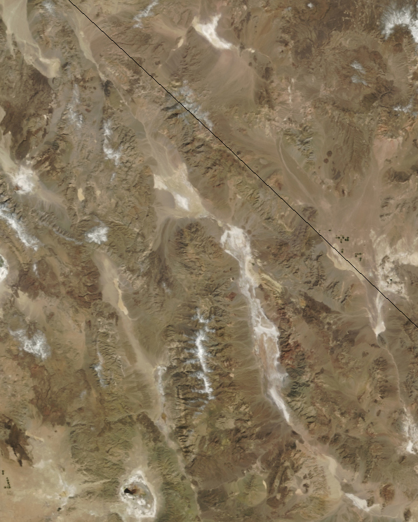 Death Valley as seen by by the Moderate Resolution Imaging Spectroradiometer (MODIS) on NASA’s Terra satellite